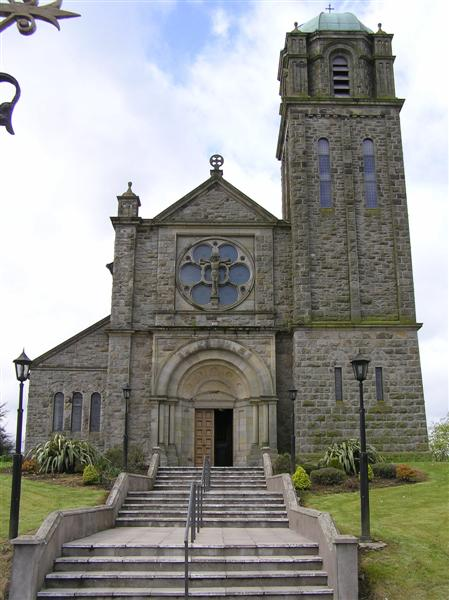 Aughnacloy RC Church. It is in the middle of the town - interior view 598436